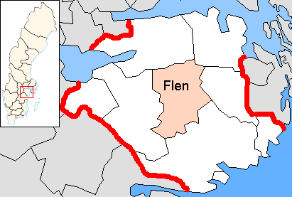 Flen Municipality in Södermanland County Designd by me, based on Image:Södermanland County.png